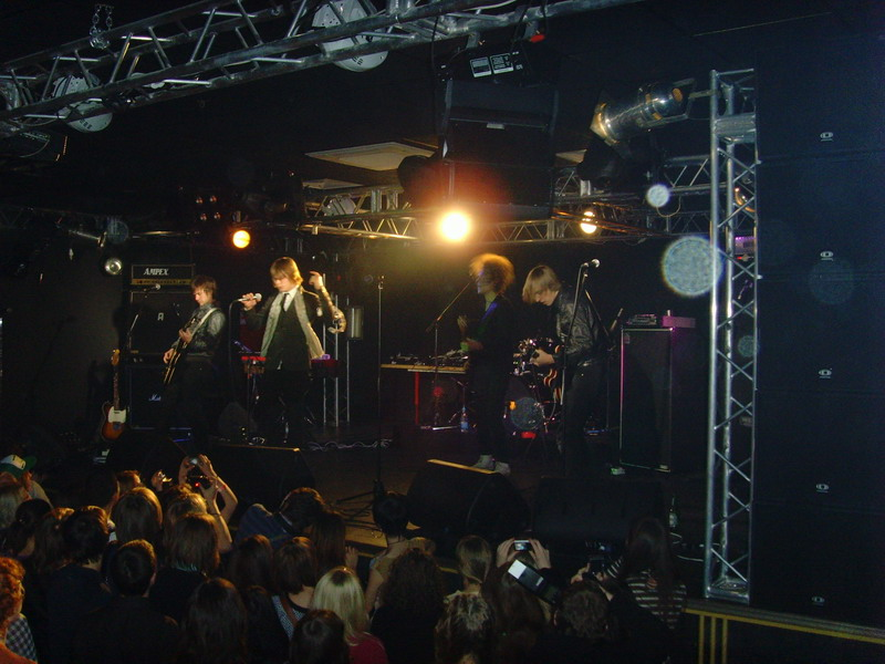 Swedish rock-band Sugarplum Fairy plays their first gig in Saint-Petersburg, Russia. January 24, 2009